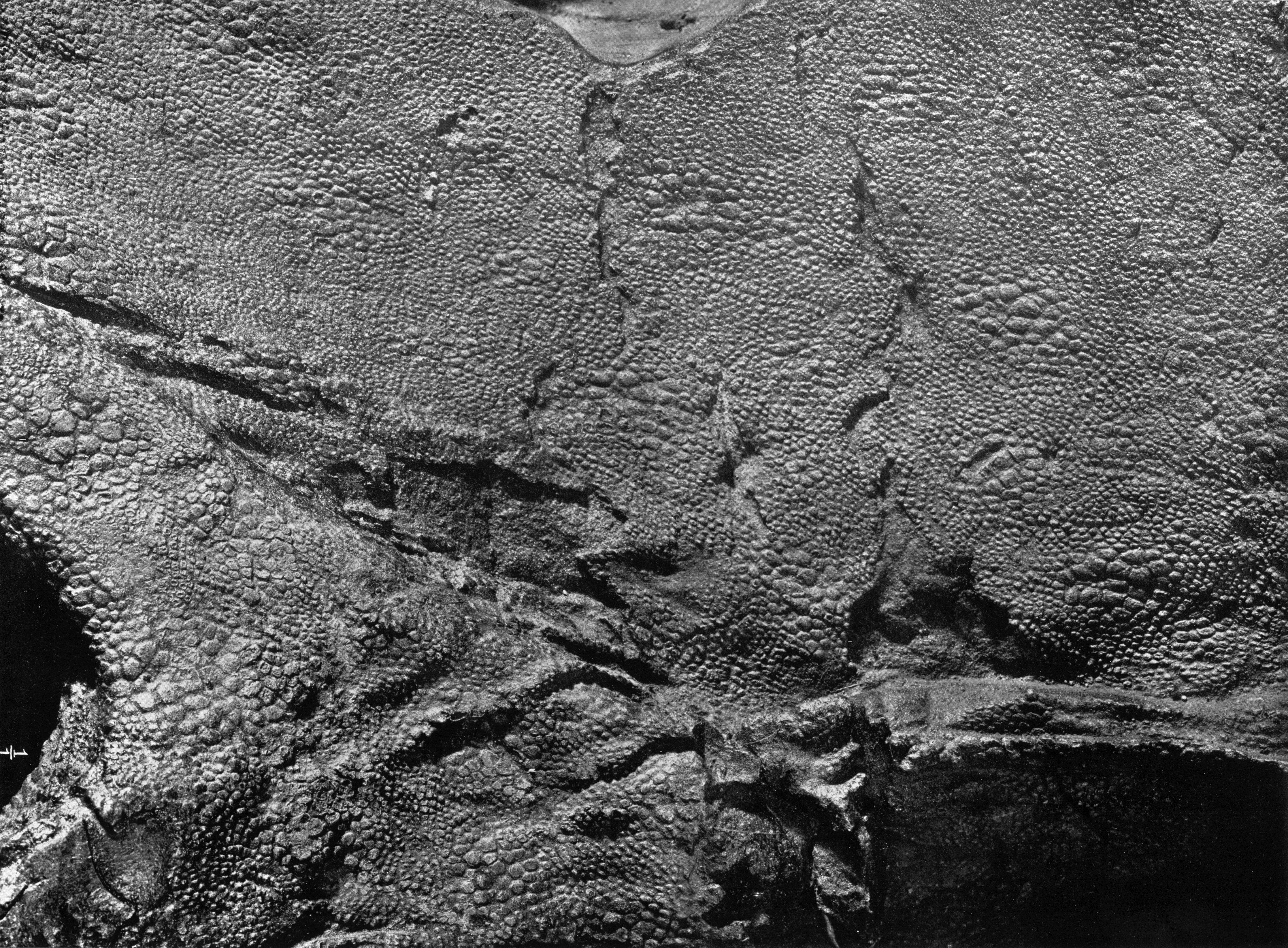 Pectoral integument of Edmontosaurus annectens mummy.